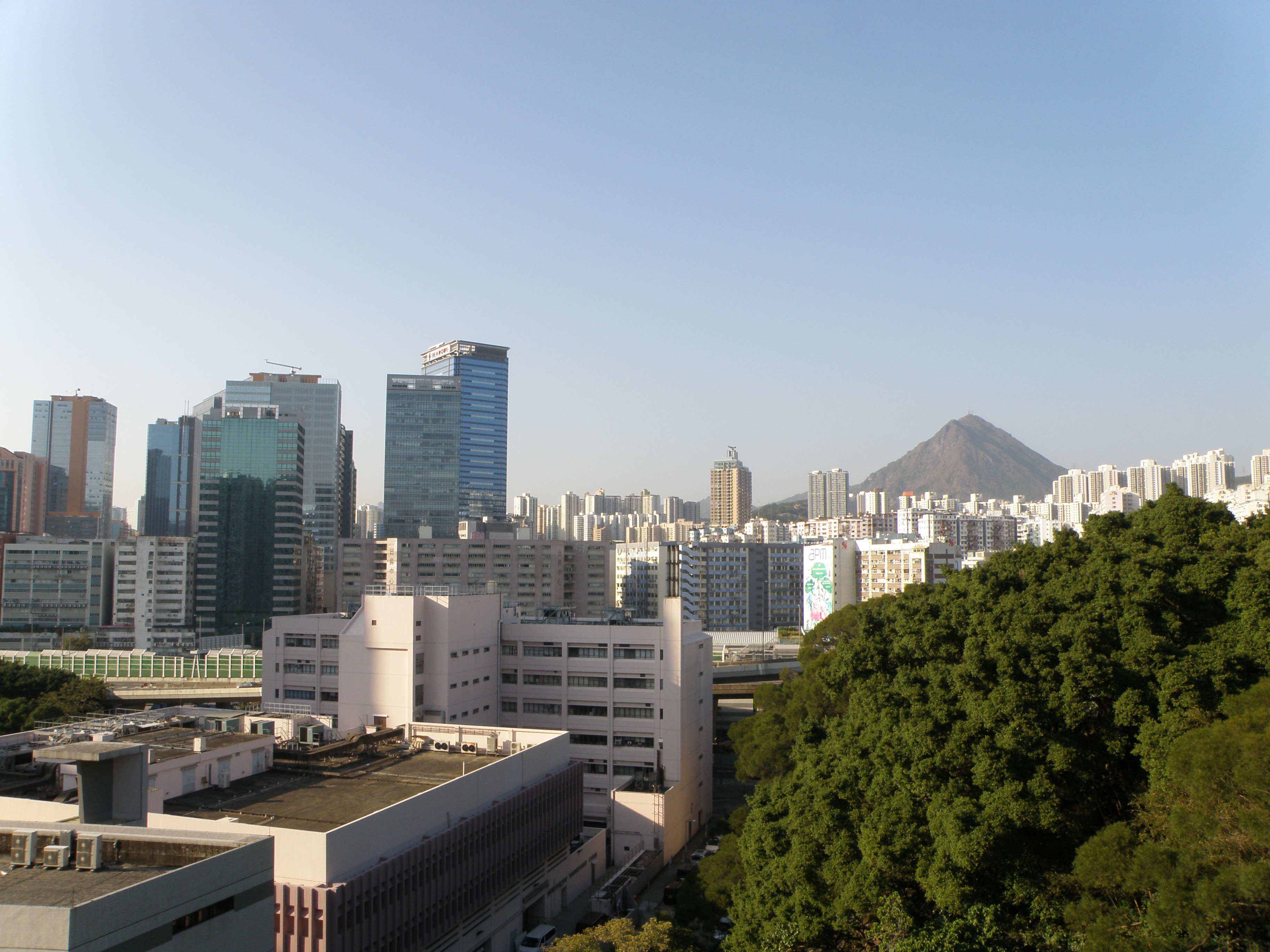 Kwun Tong in Hong Kong.